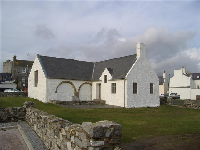 The Old Grammar School, Castletown. Built in the 13th century as St. Mary's Chapel, this building is reputed to be the oldest roofed building in "the Isle of Man". It remained a church until 1698 when it became a school, and was in use until 1930. Nowadays it is a tourist information centre.